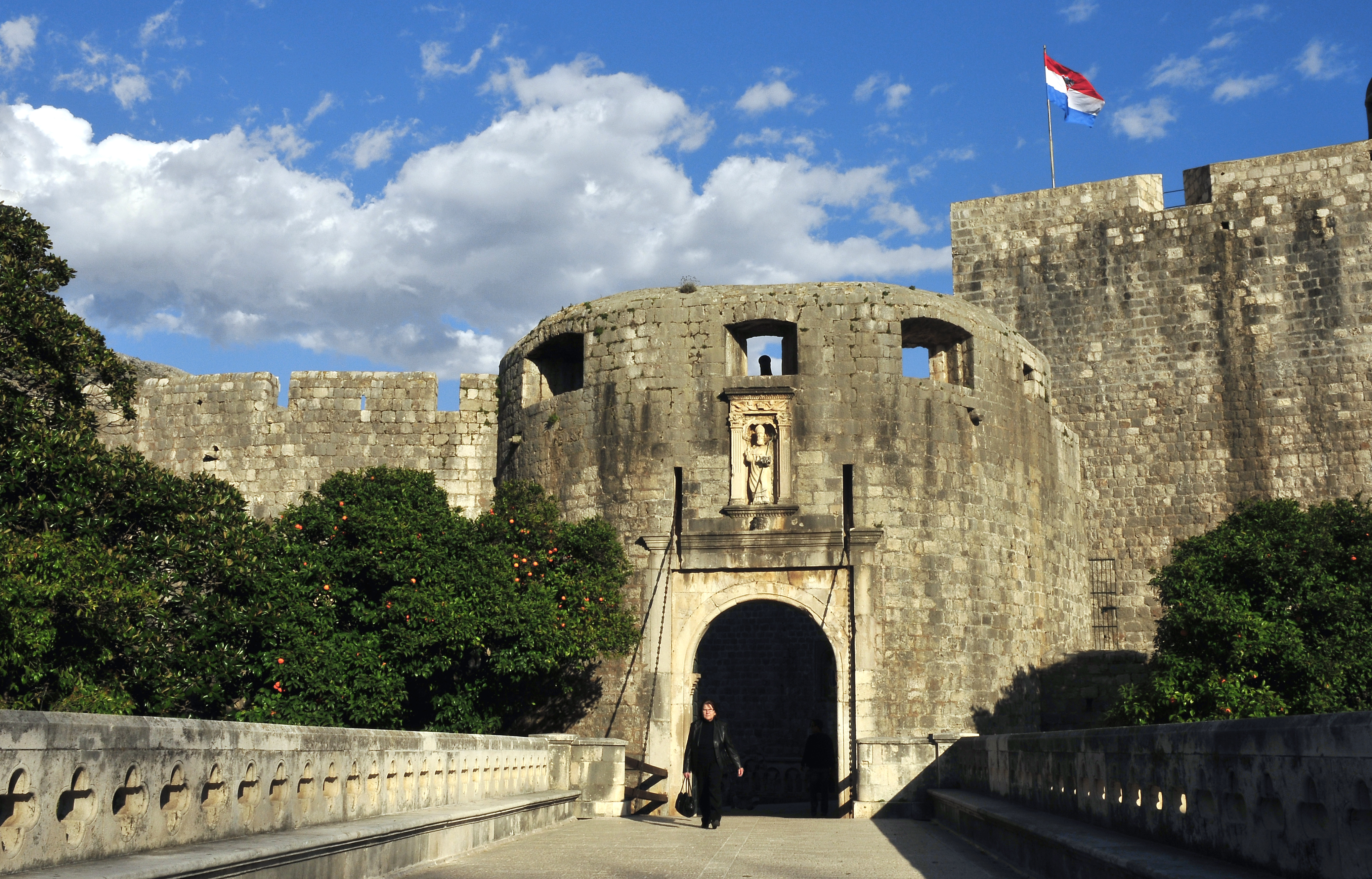 Outer side of the Pile Gate. Dubrovnik, Dubrovnik-Neterva, Dalmatia, Croatia